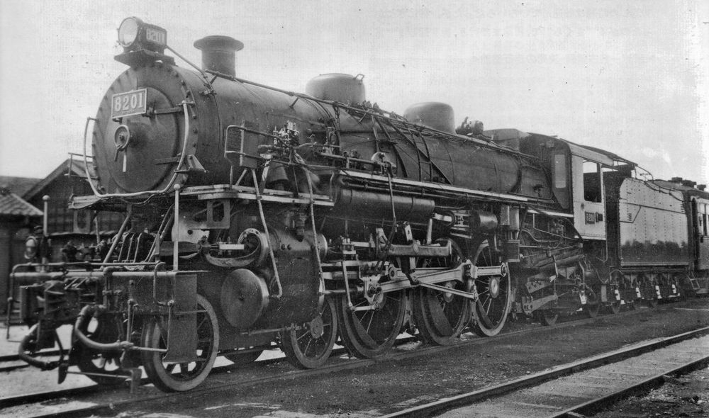 JGR Class 8200 (later Class C52) steam locomotive 8201